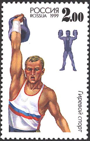 Russian stamps no 534 — Dumb-bell lifting